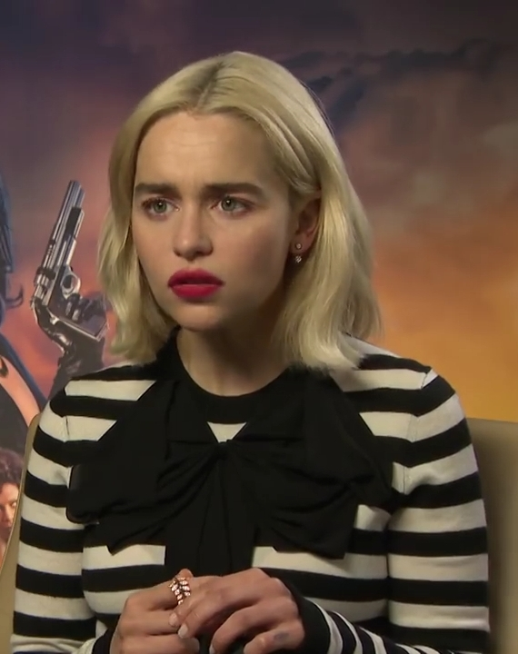 Emilia Clarke promoting Solo: A Star Wars Story